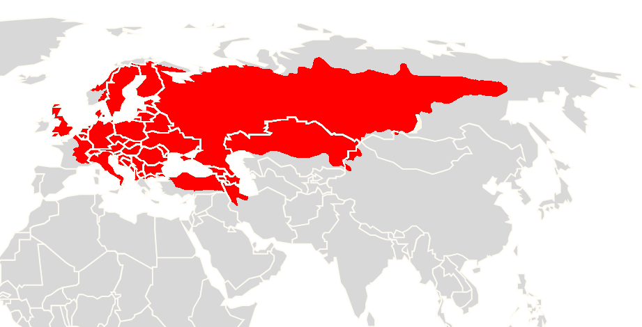 European Water Vole (Arvicola terrestris or Arvicola amphibius), range map, depending on the range map at IUCN red list